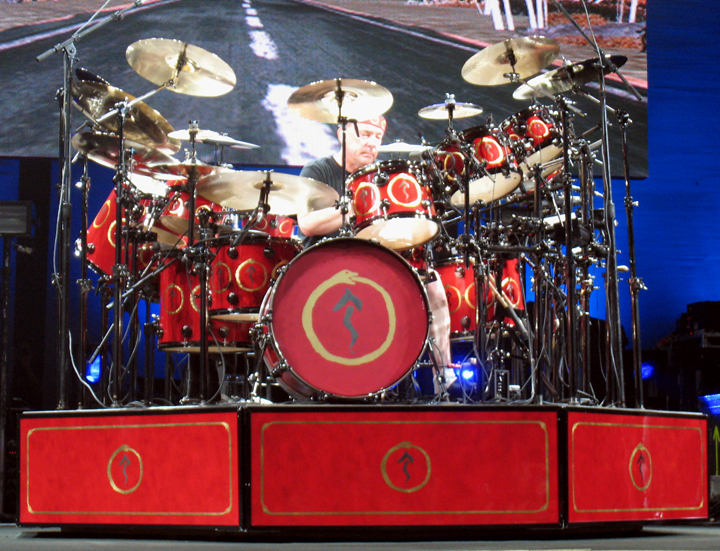 Neil Peart. Ouroboros symbol on drumset.